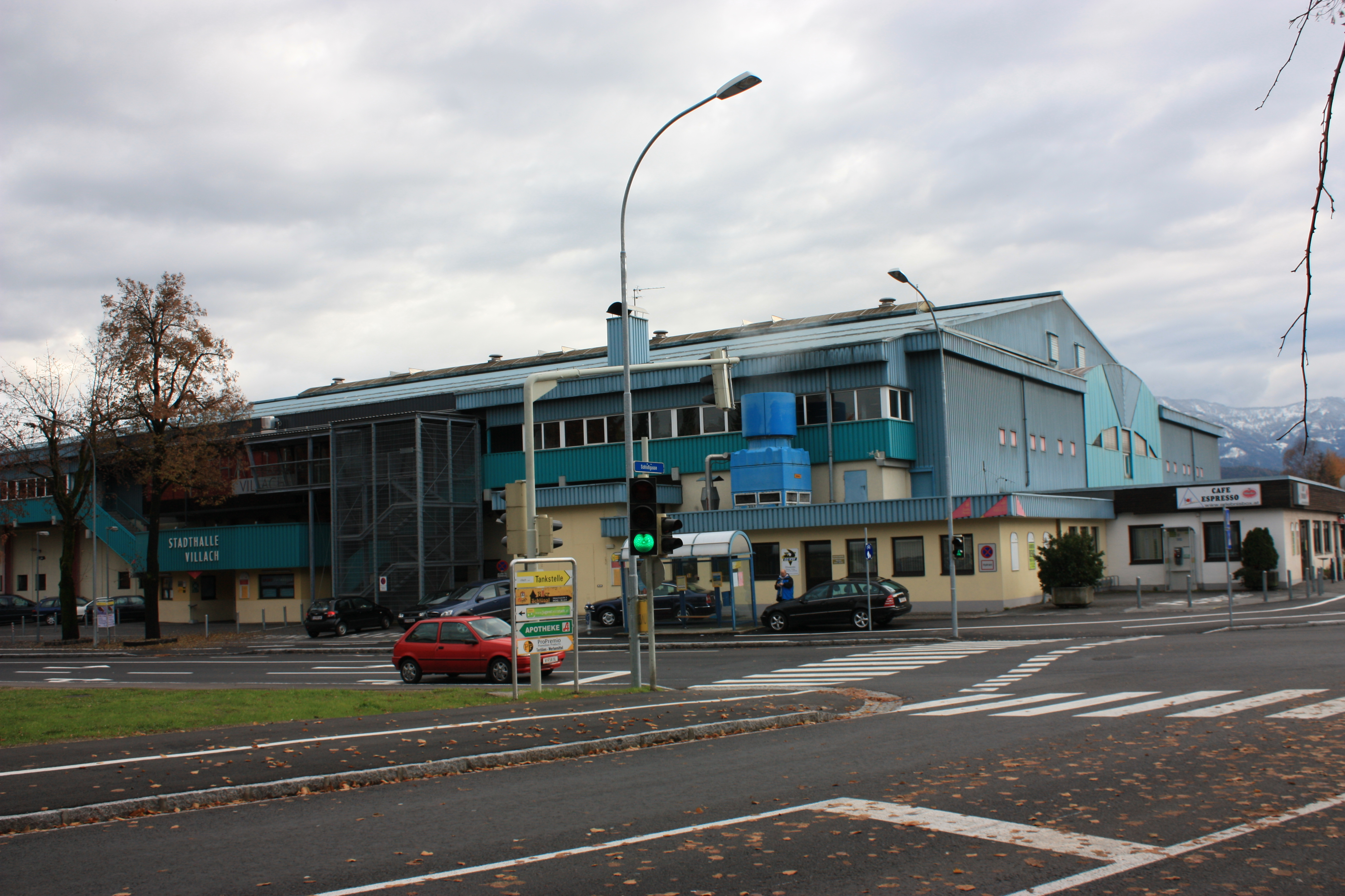 Stadthalle (Icehockey-stadium) Locality: Tiroler Straße Community:Villach